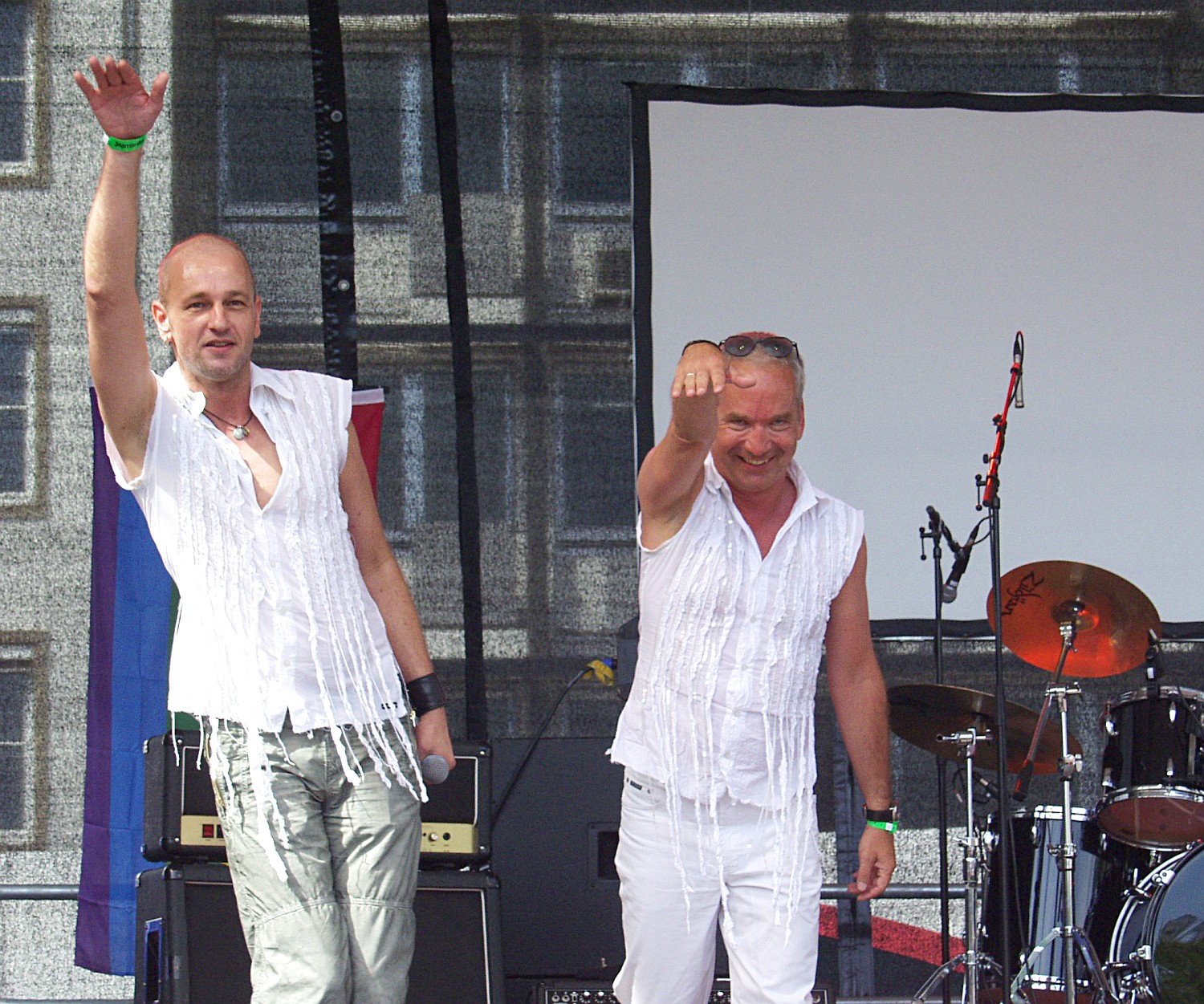 Stephan Runge and Claus Vinçon at the "Heumarkt" in Cologne, Germany during ColognePride 2006.